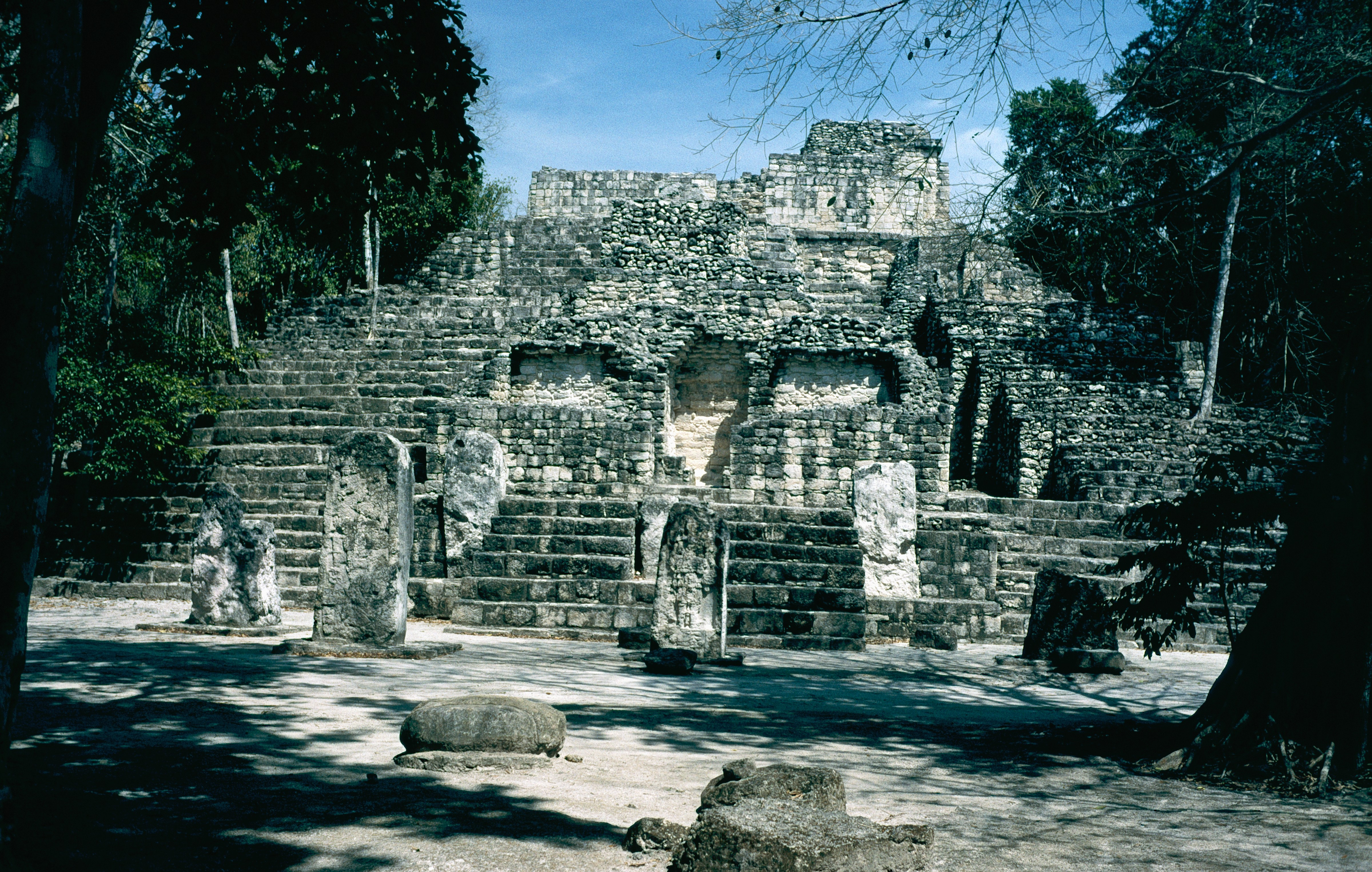 Calakmul, Campeche, Mexico: structure IV